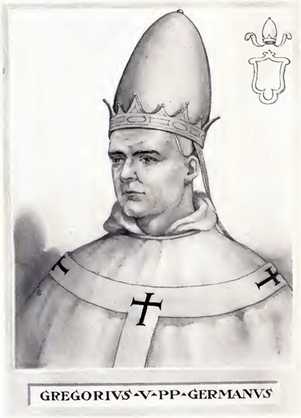 This illustration is from The Lives and Times of the Popes by Chevalier Artaud de Montor, New York: The Catholic Publication Society of America, 1911. It was originally published in 1842.